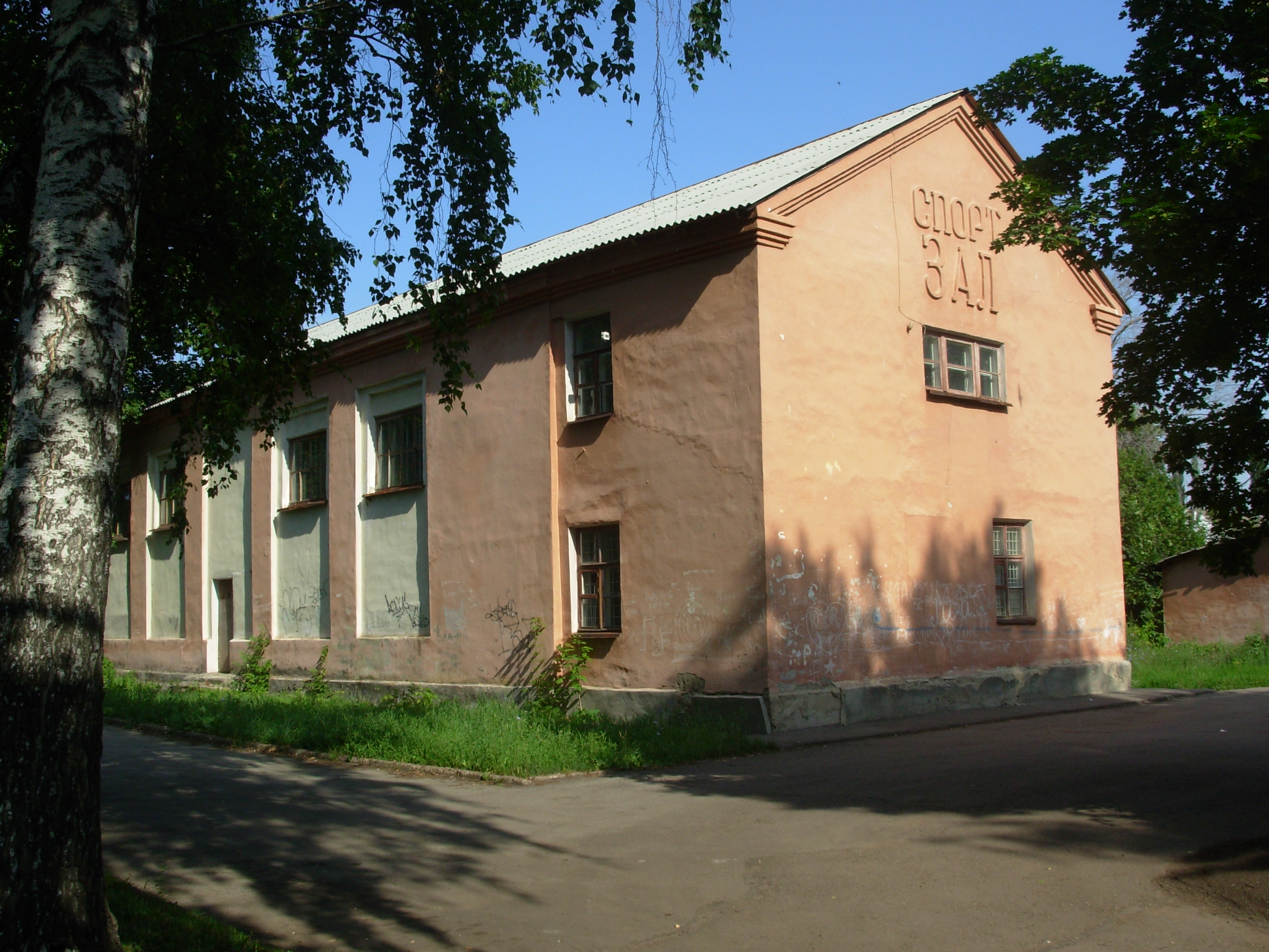 street